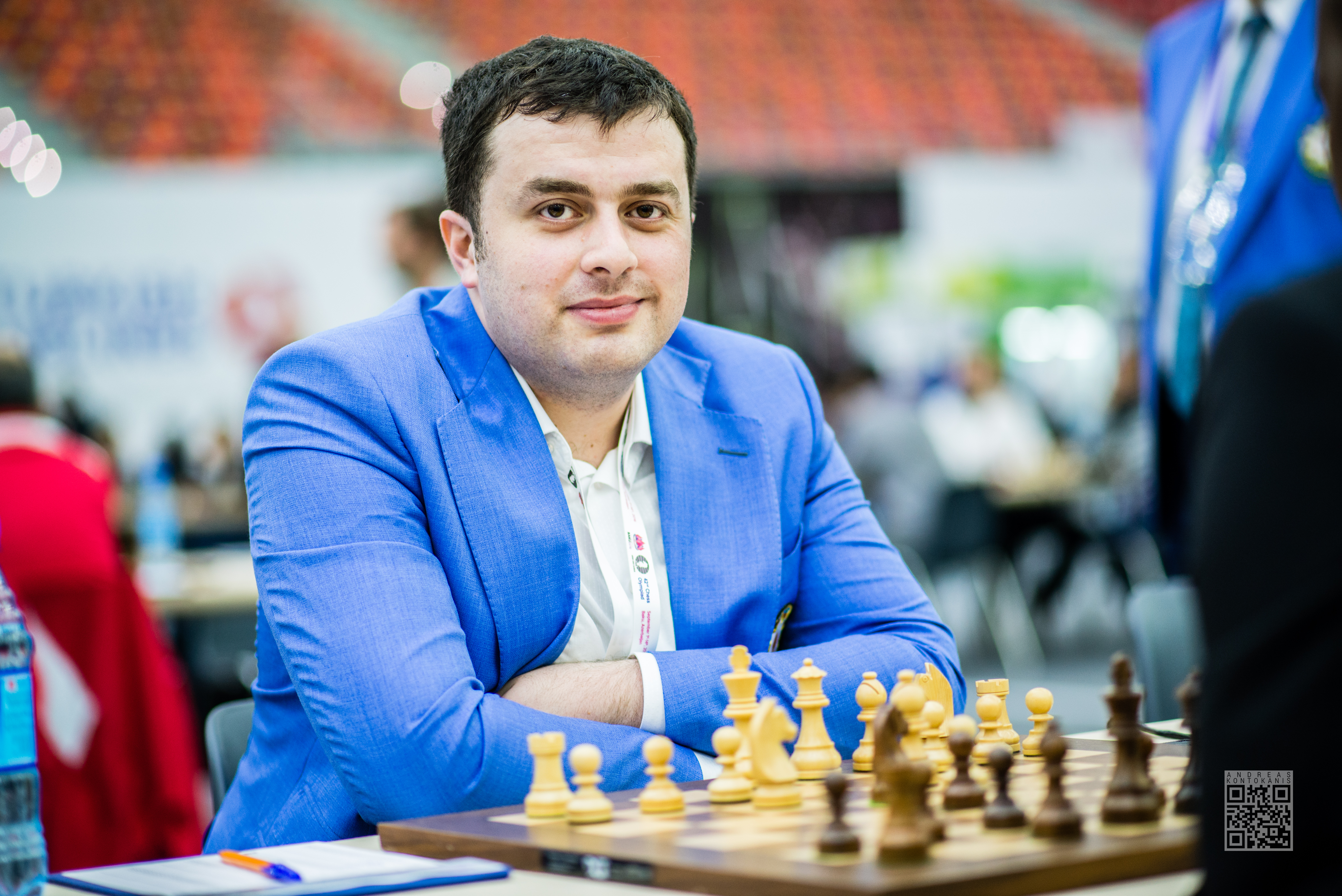 Gadir Guseinov